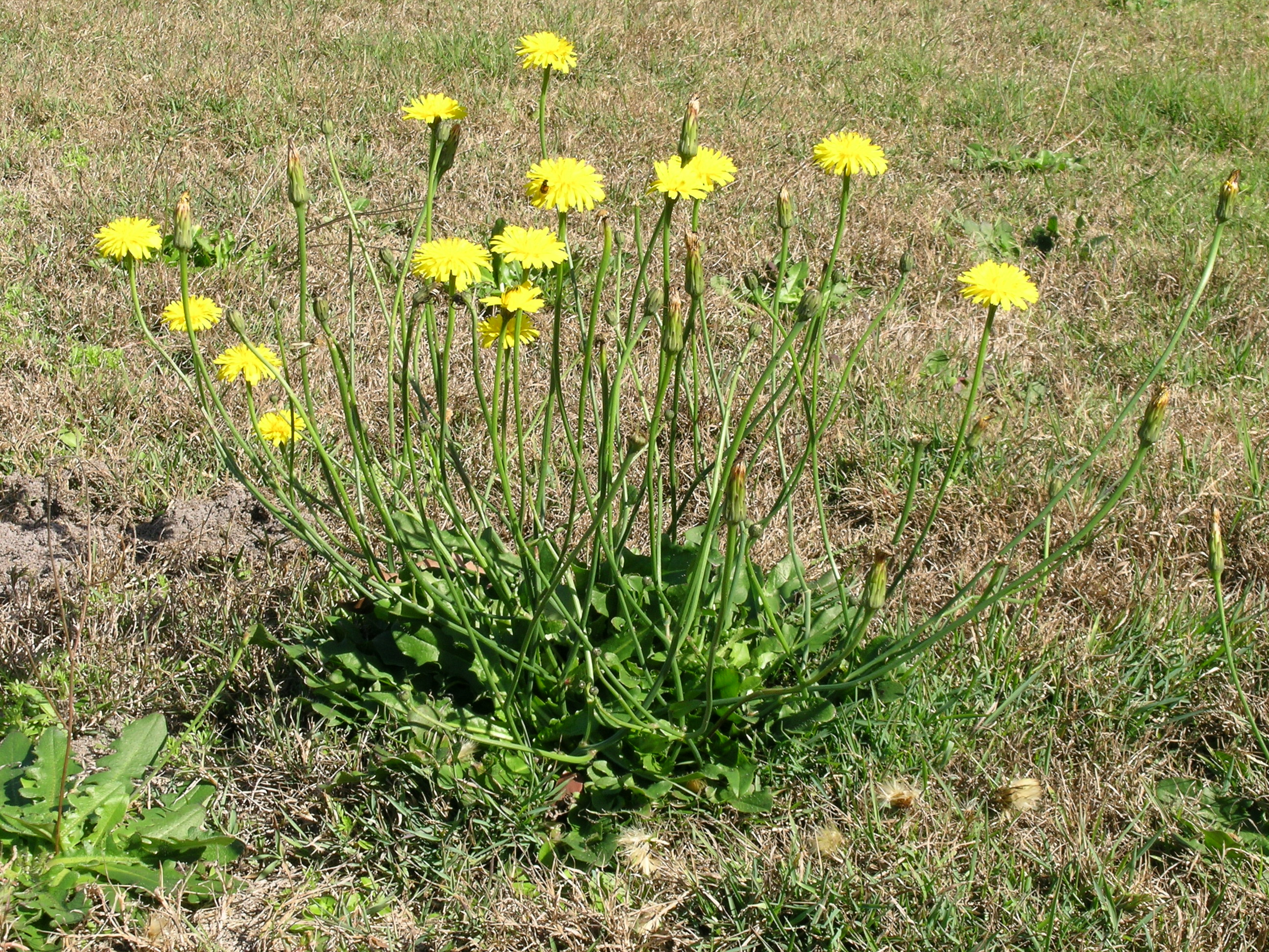 Introduced, yearlong-green, perennial herb, with a solid taproot and 30-50 cm tall. Leaves form a rosette and are bluntly lobed, 5-20 cm long and covered with bristly hairs. Flowerheads have solitary heads at the tips of solid, branched stems. Heads are 5-15 mm wide, with yellow ligulate flowers. Flowering is over most of the year. A native of Europe, it is common in pastures, along roadsides and in disturbed areas. More common on low fertility, acid soils or where grazing promotes bare ground. Flat rosettes can cover a relatively large area and suppress more desirable plants. Selected by horses, but suspected (though never proven) that it can cause stringhalt in horses where it is dominant. Palatable and nutritious for cattle and sheep, but low growing habit restricts its availability. Best controlled with vigorous pastures as it is difficult and rarely economical to kill with herbicides. Strong pastures out-compete it as it is susceptible to shading and requires bare ground for germination. Fertilise to promote pastures and graze to produce shading and competition.